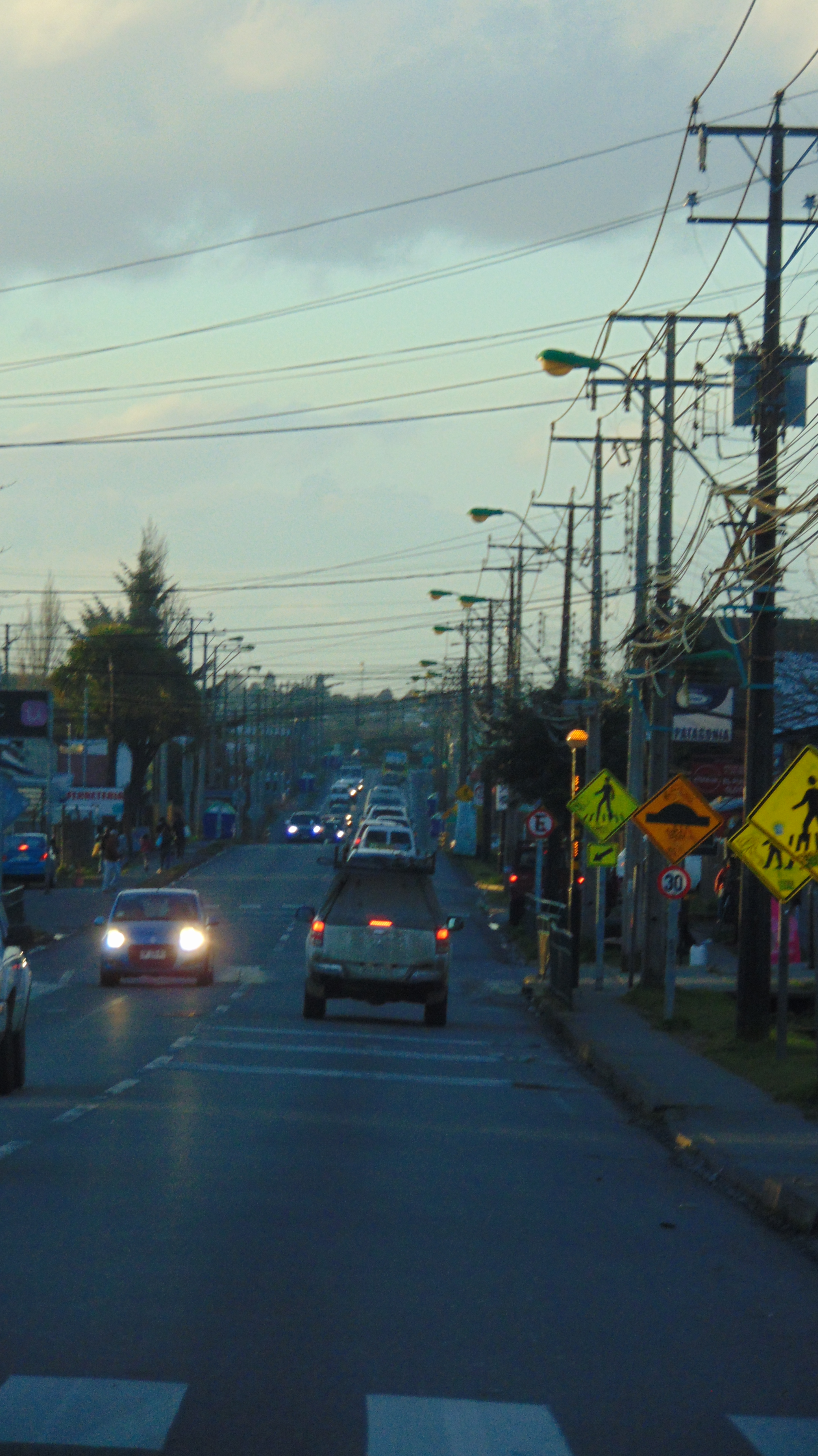 Gabriela Mistral Street, Alerce, Chile